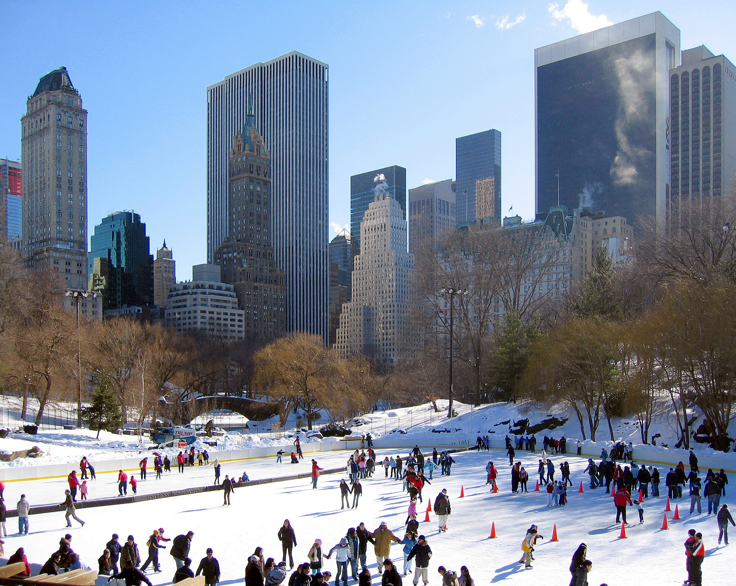 Central Park. Wollman Rink, New York, 2004